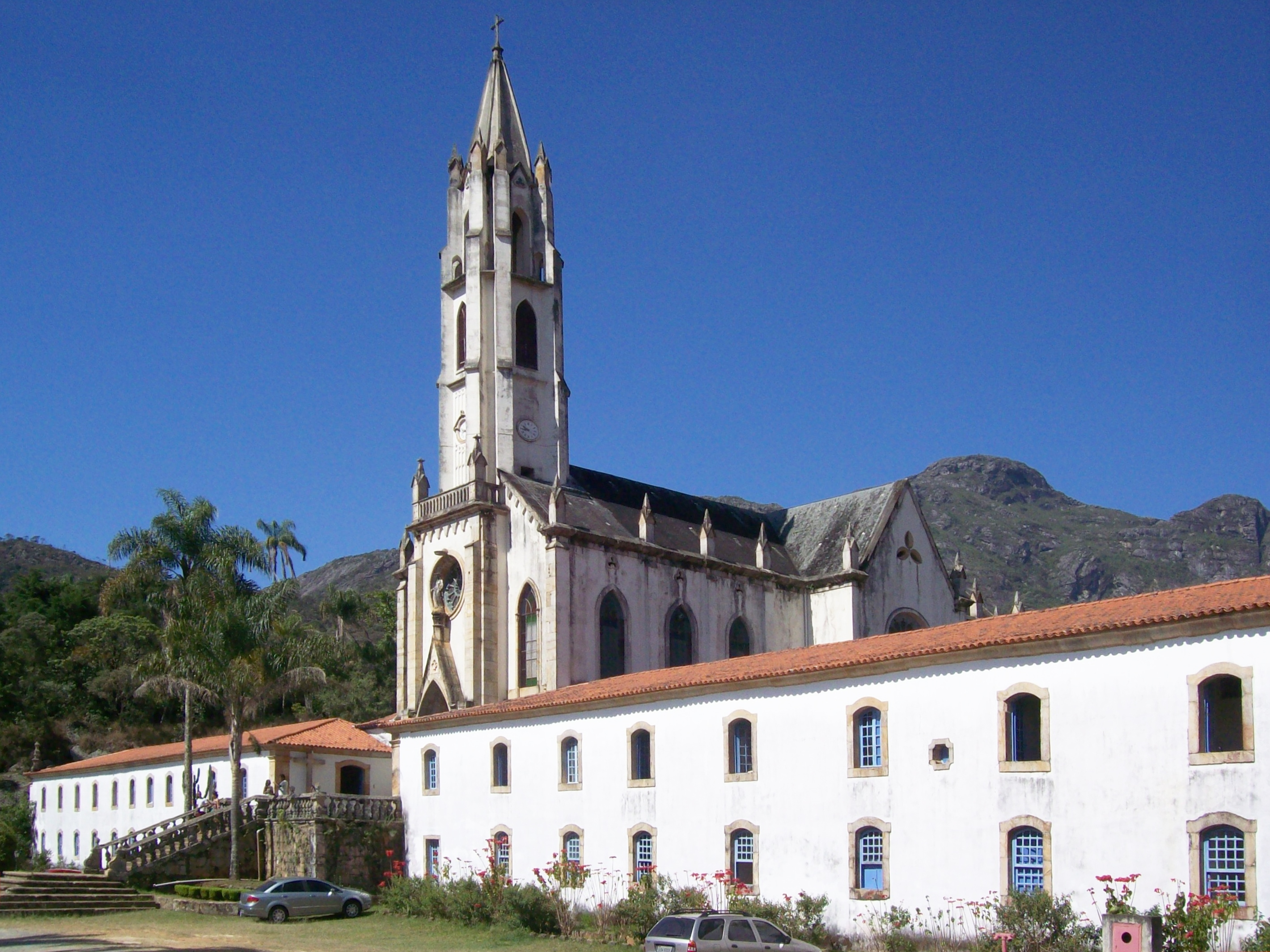 Front of the Caraça santuary, in Catas Altas, Minas Gerais, Brazil.